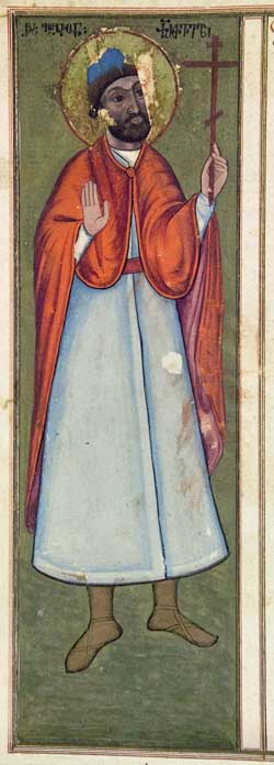 Georgian miniature painting of St. Gobron from the 18th century.